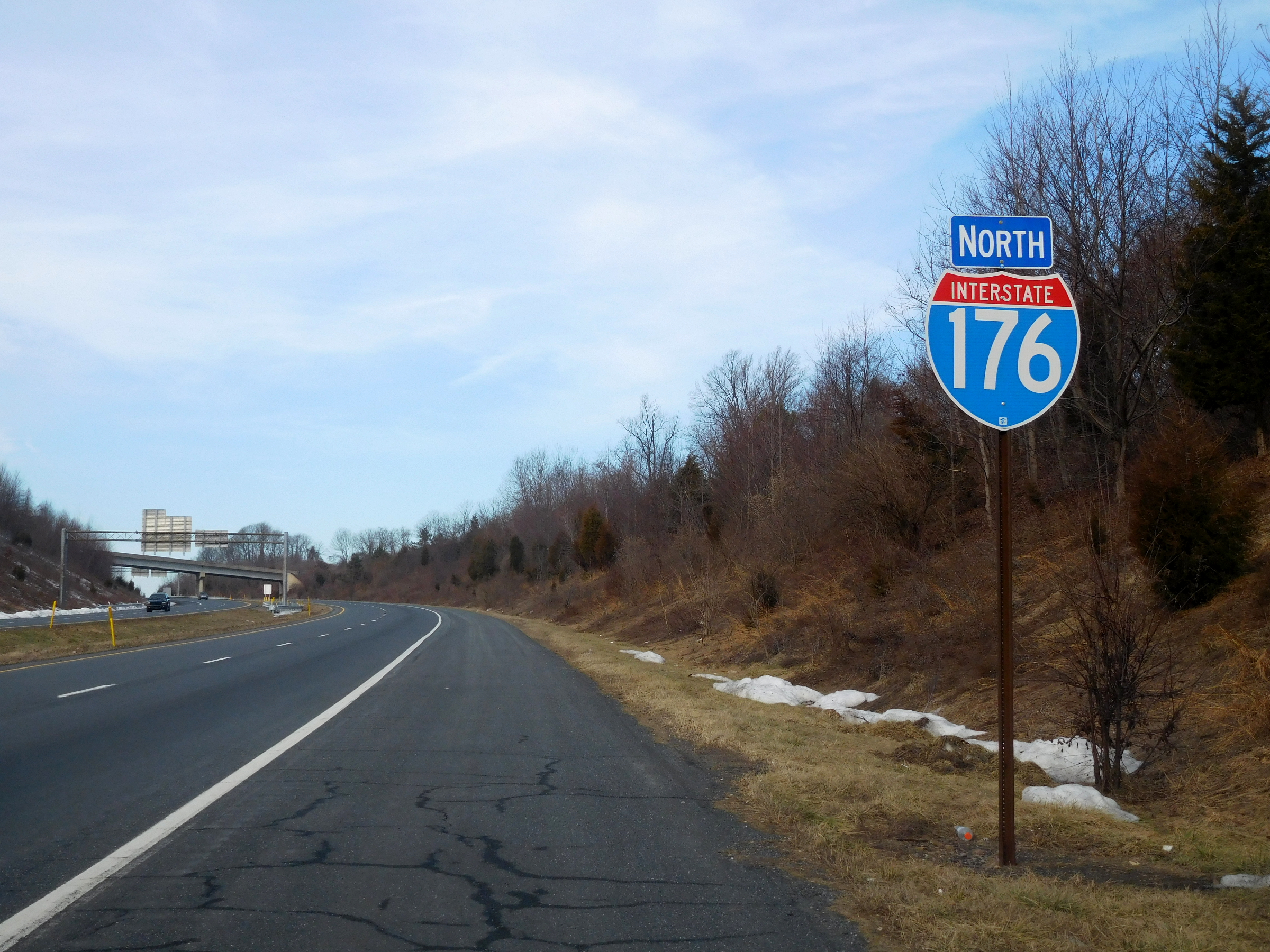 Interstate 176 first northbound shield in Caernarvon Township, Berks County, Pennsylvania.